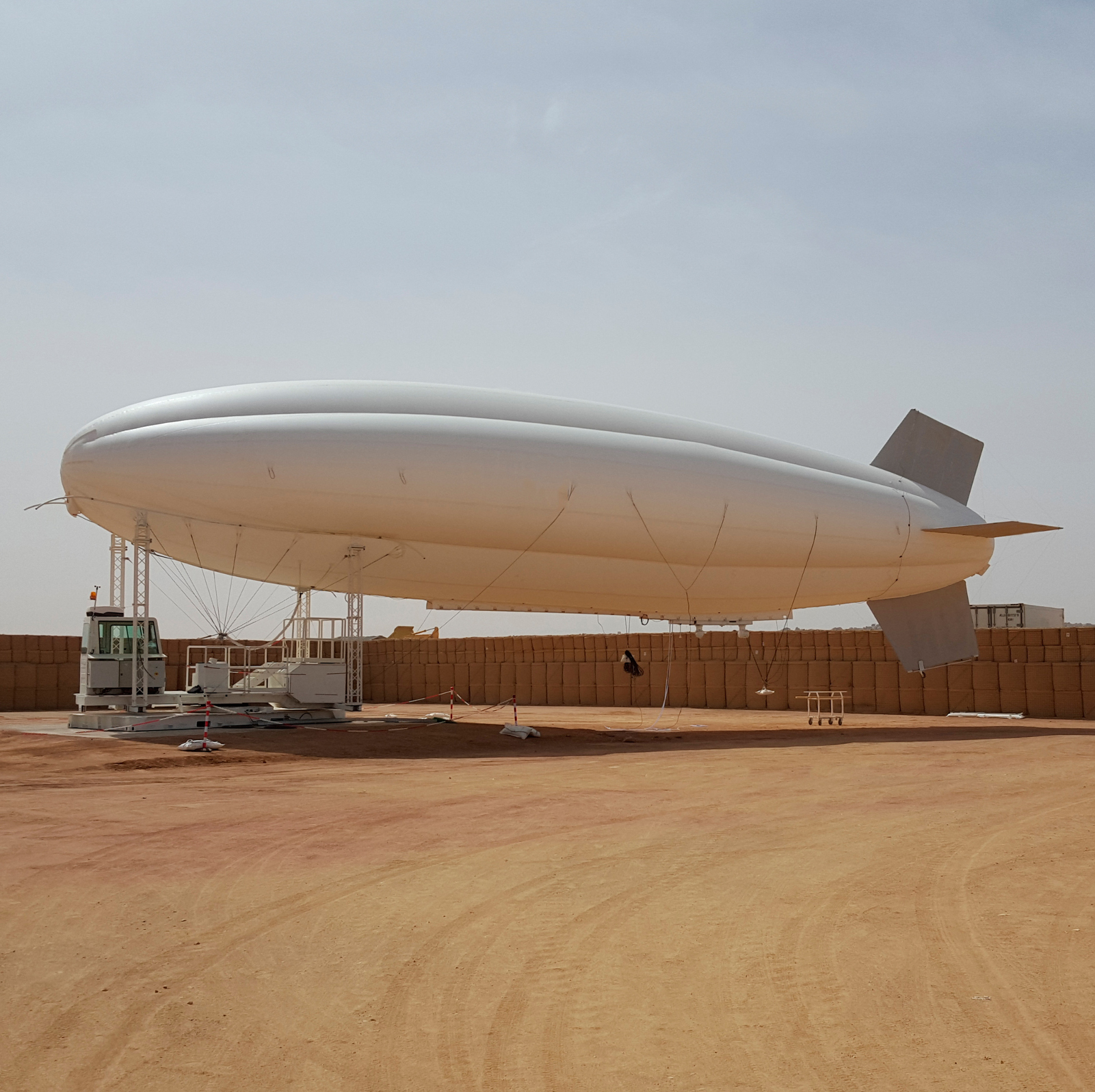 Tethered ballon used by United Nations for military camp protection. Aerostat manufactured by A-NSE.